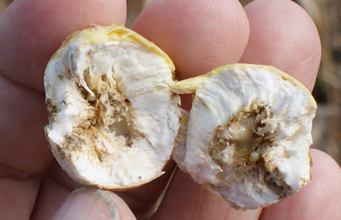 Golden Rod The gall is opened in this image showing the larva within the ball shaped bump on the goldenrod stem. This is a gall formed on the stems of this goldenrod for larva of the Goldenrod Gall Fly, Arthropoda, Insecta, Diptera, Tephritidae, Eurosta solidaginis. Goldenrod Gall Fly Goldenrod Gall Flies (Eurosta spp.) Species Profile All Galls Are Divided Into Three Parts (At Least In Goldenrod ... Located to the north of the Saskatchewan Railway Museum near Saskatoon